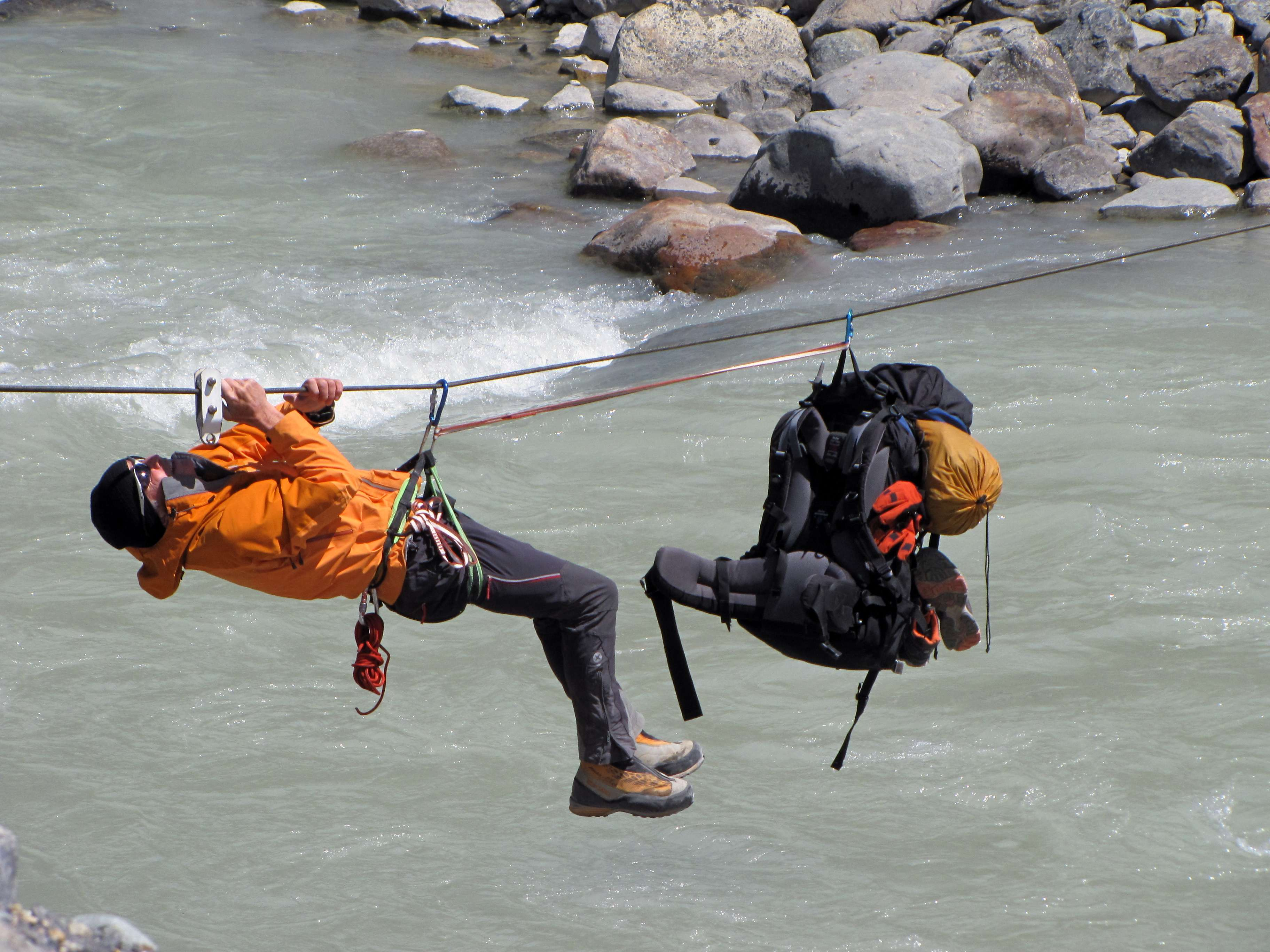 Tyrolean traverse across Rio Fitz Roy